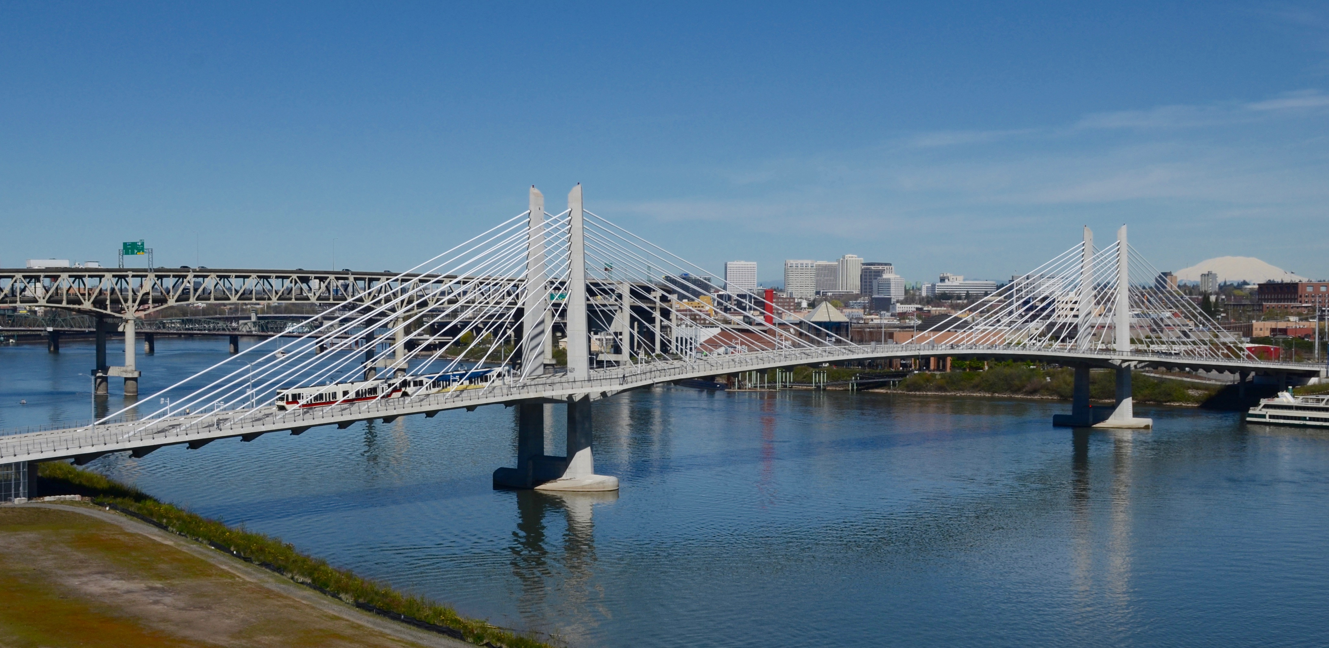 The Tilikum Crossing bridge (in Portland, Oregon) viewed from the Ross Island Bridge. A MAX light rail train (of Type 2 and Type 3 cars, both Siemens SD660, the most common type in the fleet) is westbound on the bridge. The Marquam Bridge (carrying Interstate 5) is visible in the lefthand background, and in the righthand background is a snow-covered Mt. St. Helens (53 miles/85 km away).